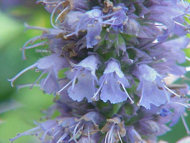 Species: Agastache anisata Family: ' Image No. 1